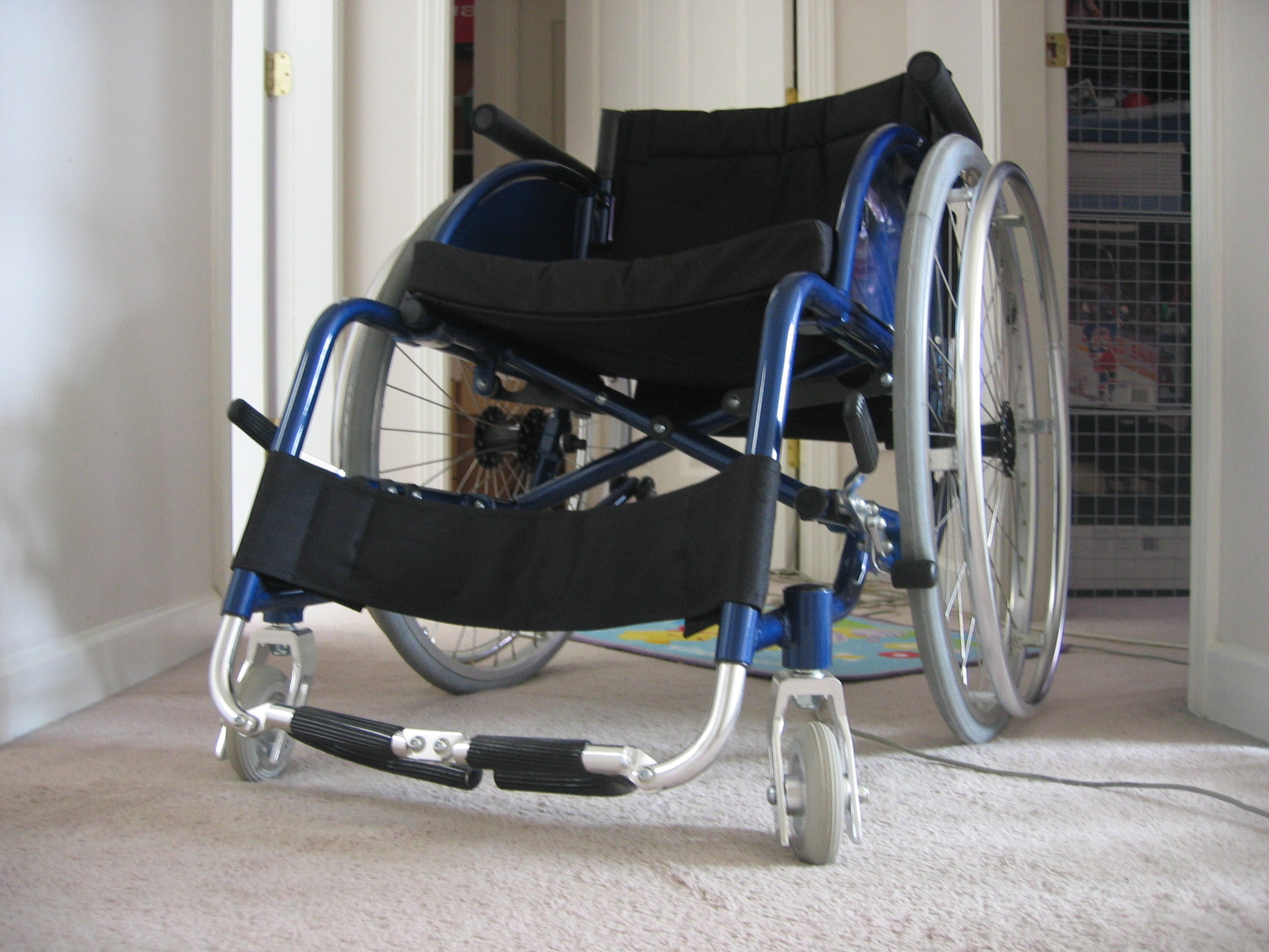 A blue folding lightweight wheelchair.